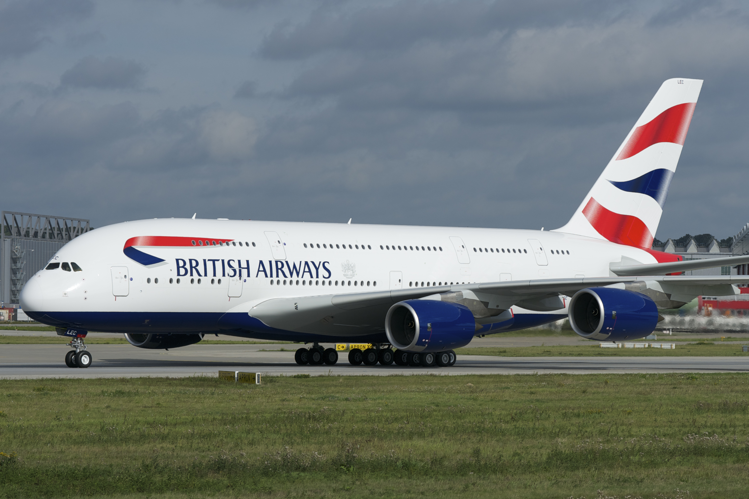 Airbus A380-841 F-WWSC, MSN124, at Airbus Finkenwerder (EDHI). Will be G-XLEC after delivery (3rd British Airways' A380).